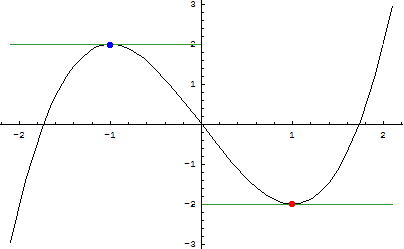 Plot of f ( x ) = x 3 − 3 x {\displaystyle f(x)=x^{3}-3x} showing local extremes.